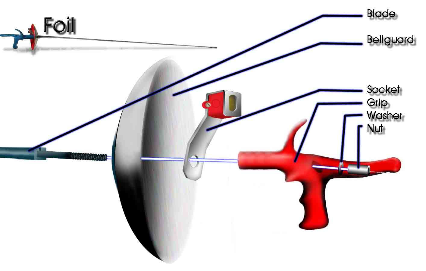 Exploded view of a modern fencing foil. Visconti grip with bayonet style bodycord plug. Created by Strydermike 20050722